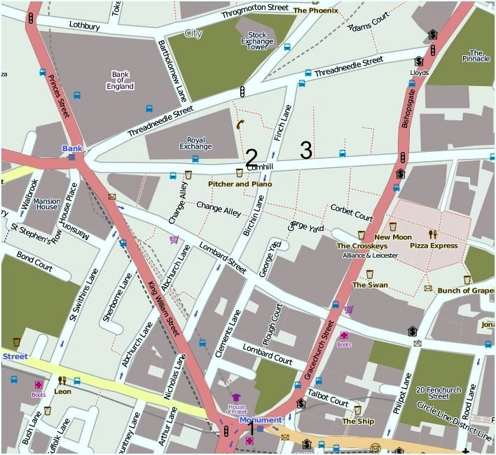 City of London The numbers mark where Ian Tomlinson was allegedly assaulted on April 1, 2009. The number 1 marks where his journey began; 2 where the alleged assault took place; and 3 where he collapsed and died.